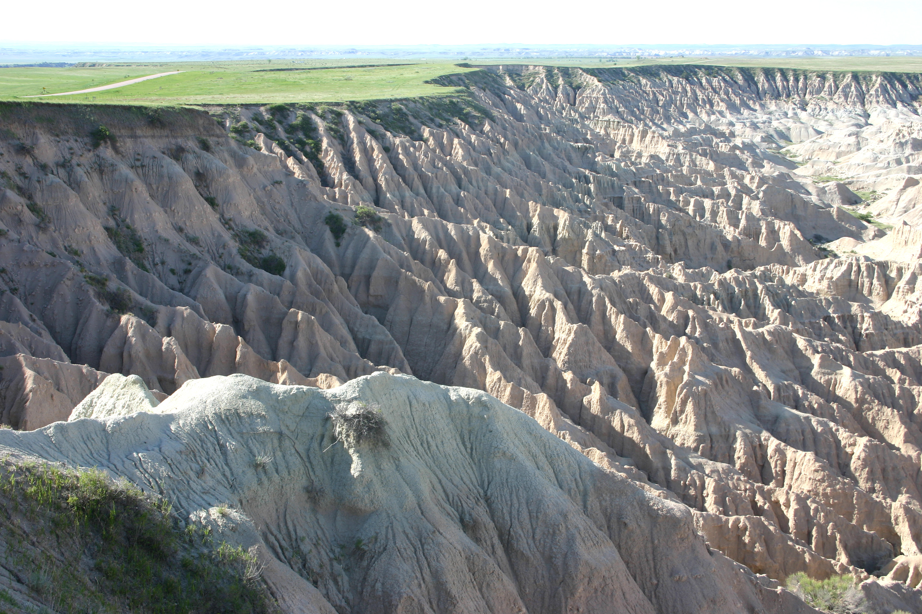 Badlands, USAerosion